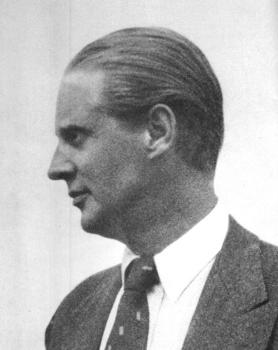 A public symbolic meeting between Assar Gabrielsson och Gunnar Engellau when Gabrielsson leaves the position as the managing director and hands it over to the next generation leaders and Gunnar Engellau as MD in 1956.